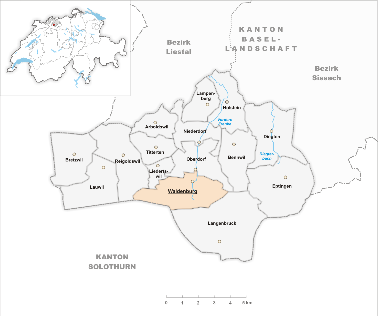 Municipality Waldenburg